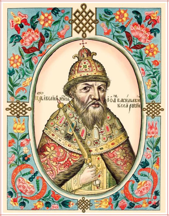 Ivan IV. Portrety, gerby i pechati Bolshoi gosudarstvennoi knigi 1672 g. [Portraits, Coats of Arms and Official Seals in the Great State Book of 1672] (from Царский титулярник) St. Petersburg: Izd-vo Peterburgskgoi arkheologicheskago instituta, 1903 NYPL, Slavic and Baltic Division